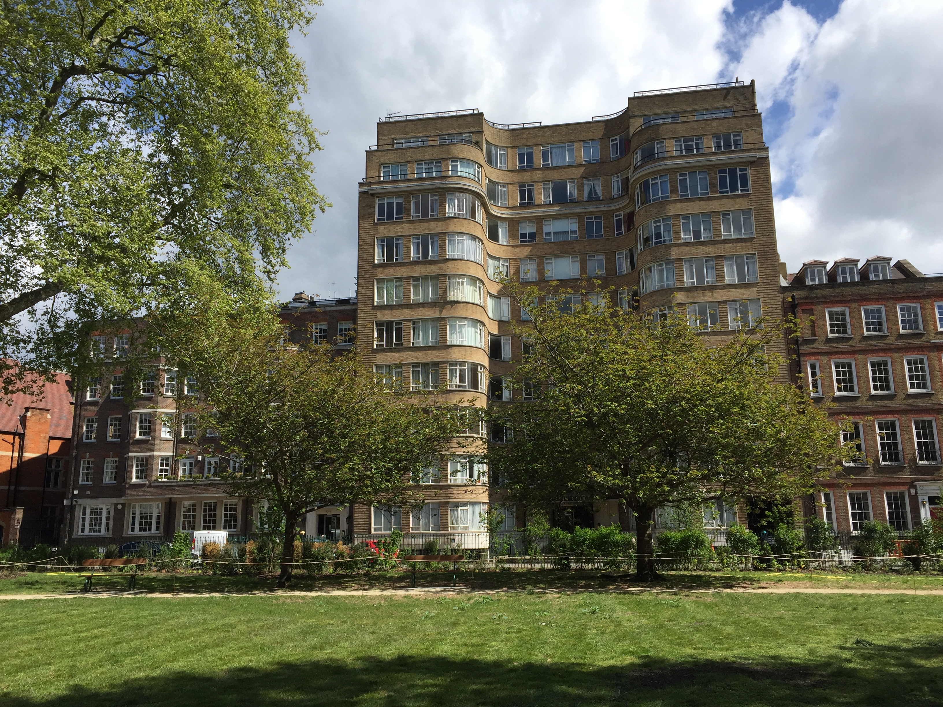 Florin Court, London, the home of Hercule Poirot.